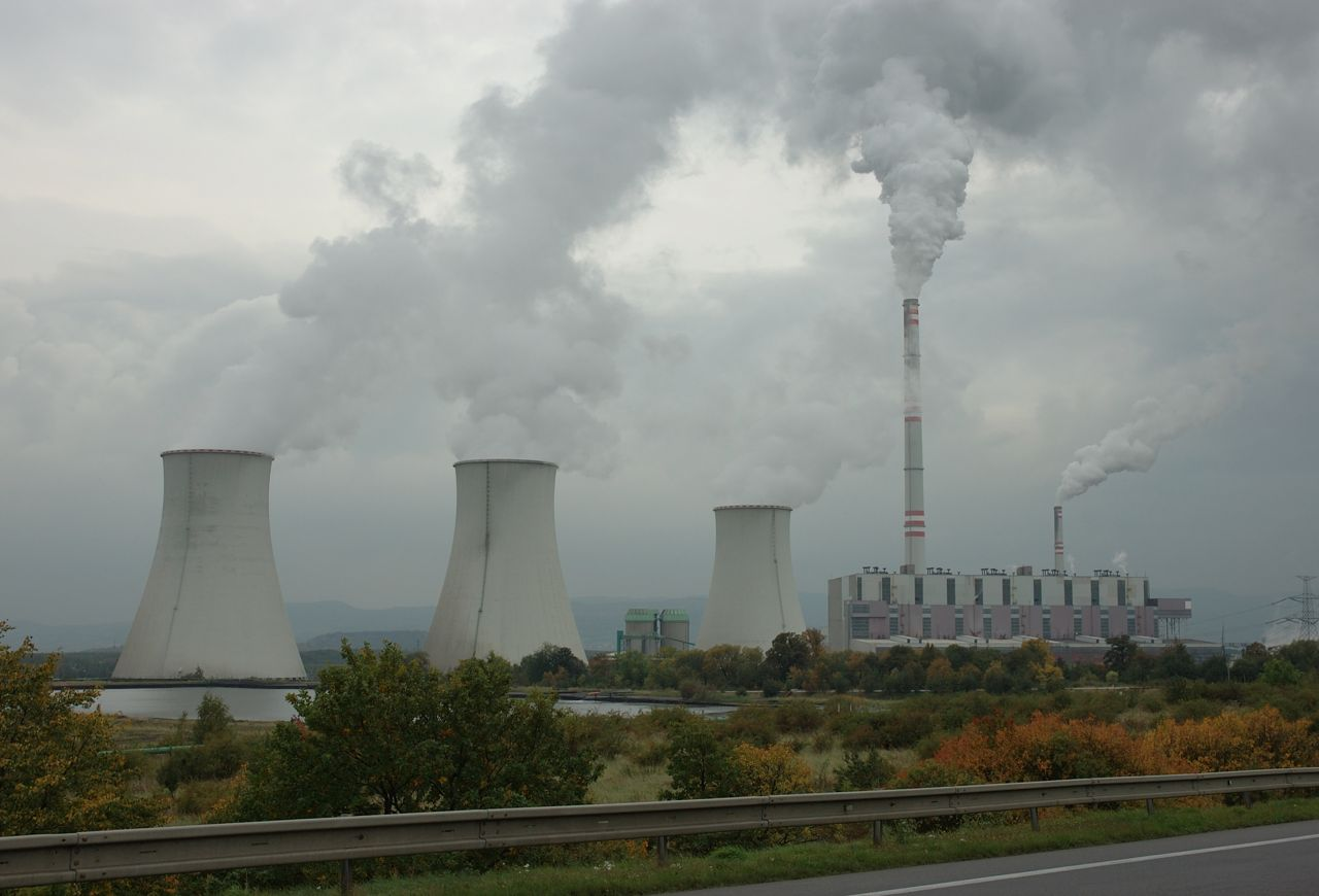 Prunéřov II power plant, Czech Republic